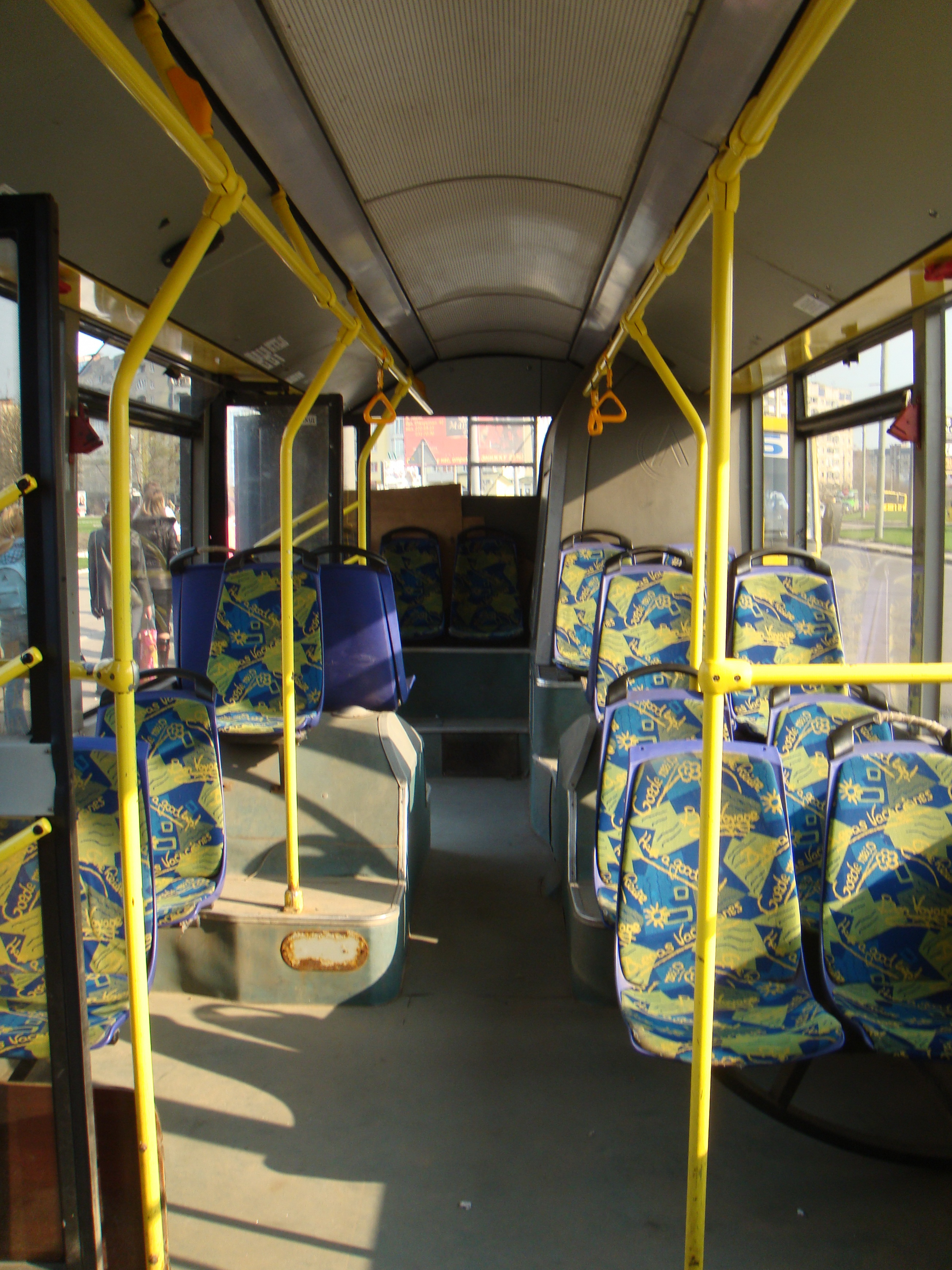 LAZ E183 interior